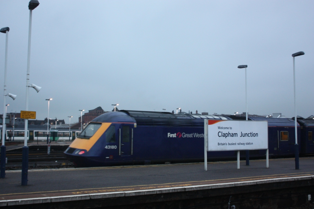 First Great Western's 43180 passes through the Windsor Line platforms at Clapham Junction. It is operating a London Waterloo to Penzance service, diverted from its usual route from London Paddington due to major engineering work at Reading.